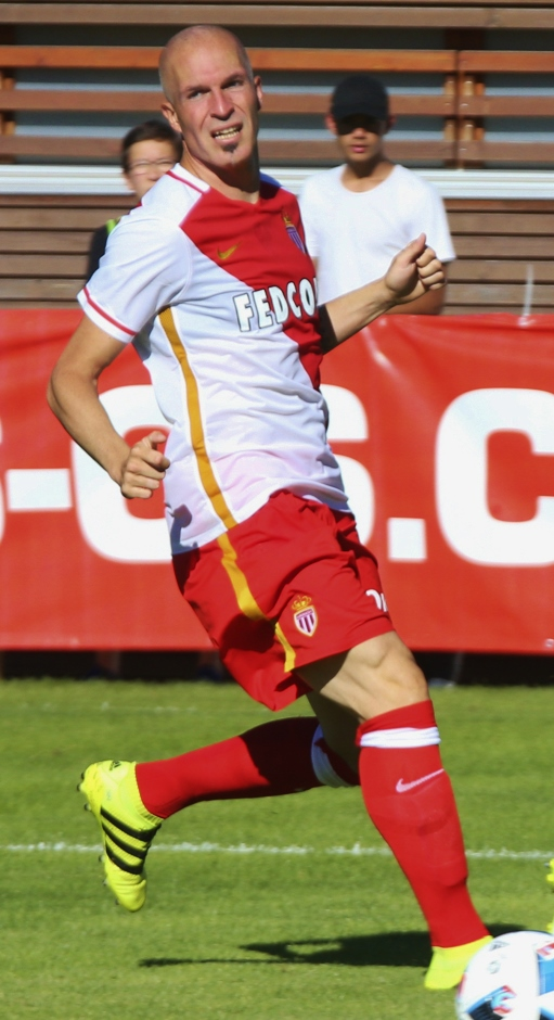 Andrea Raggi